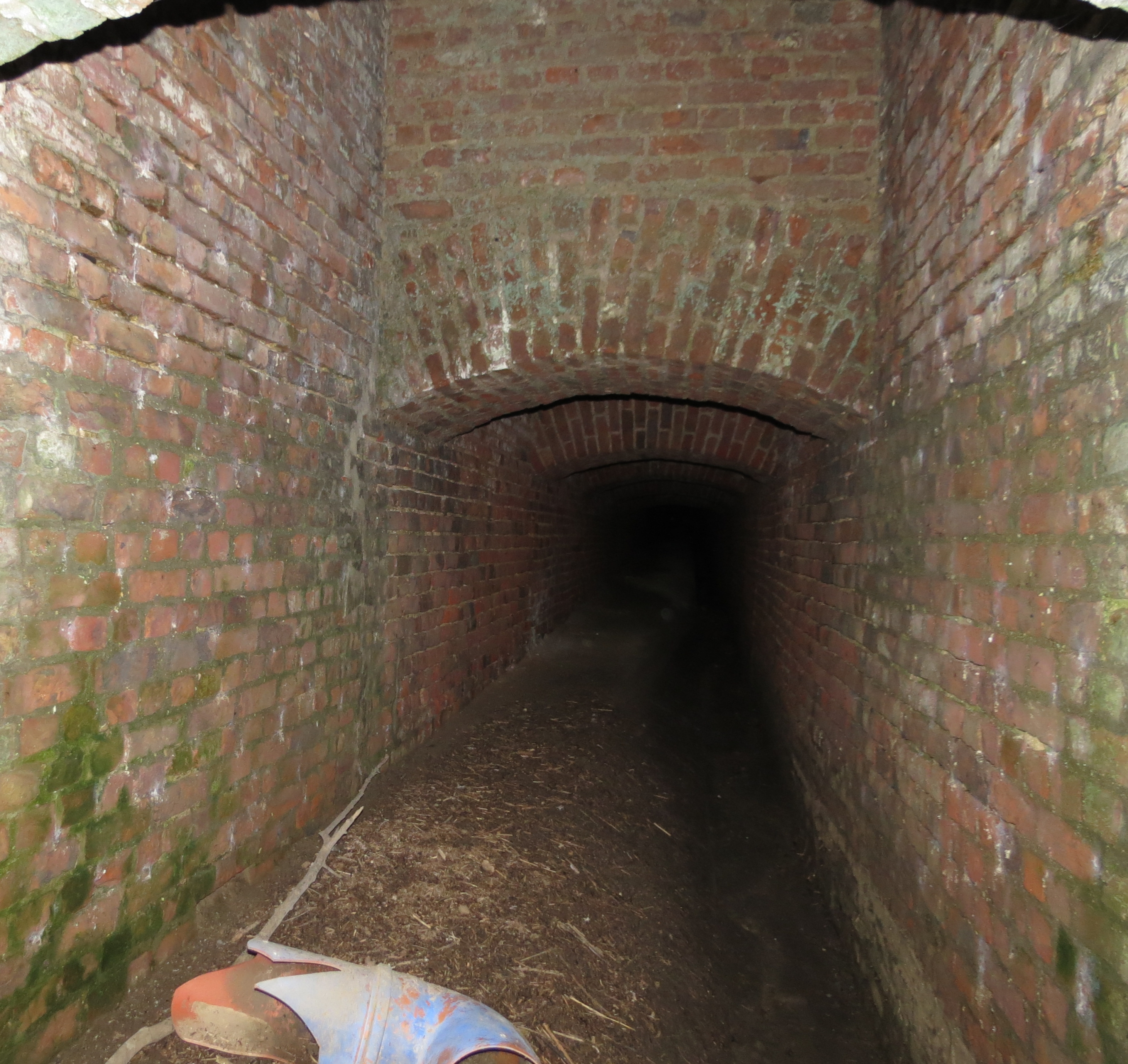 Adit of the former coal mine neu-Voccart in Strass, Herzogenrath, Germany